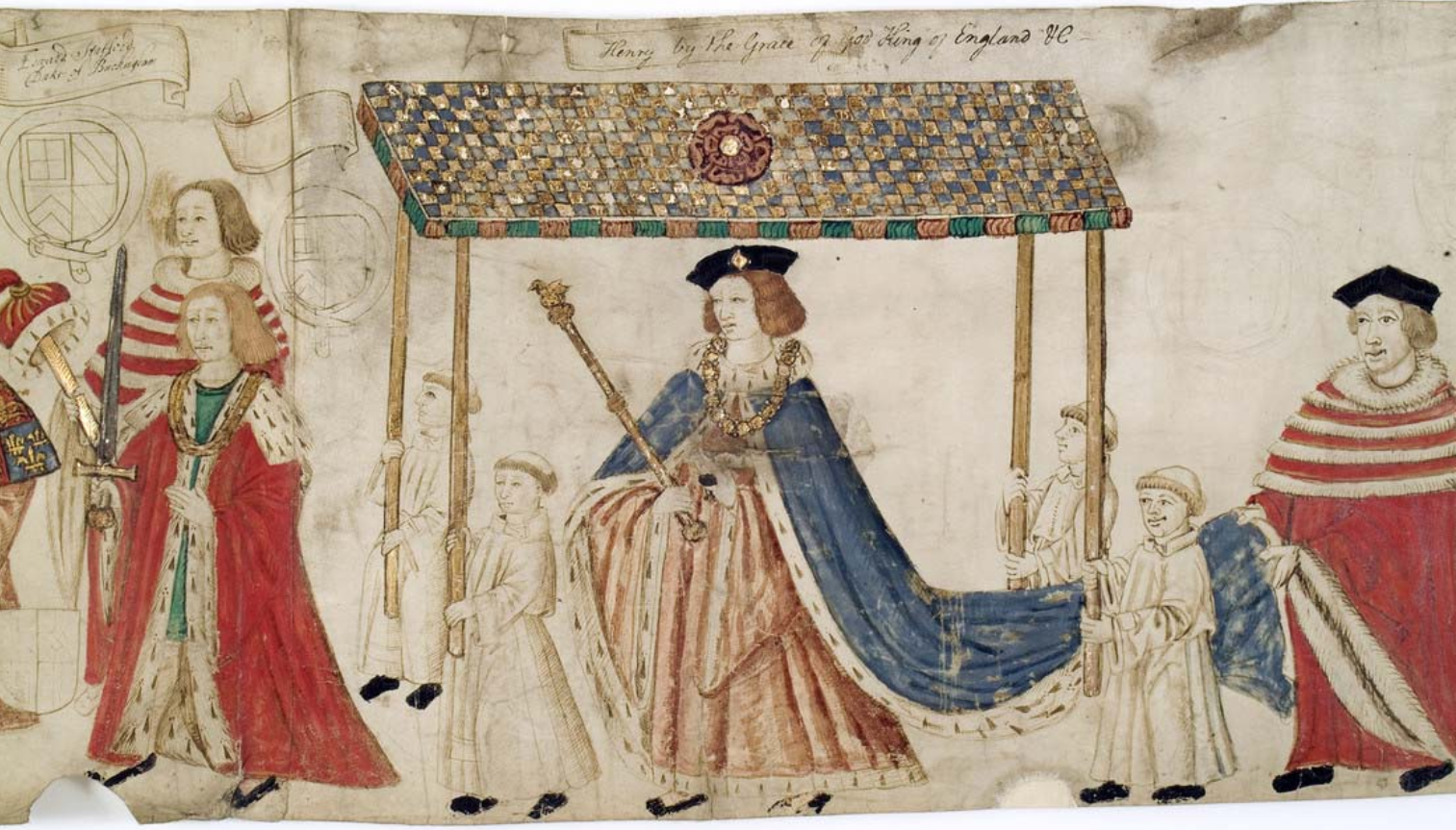 King Henry VIII (1509-1547) on his way to open Parliament on 4th February 1512. Edward Stafford, 3rd Duke of Buckingham (1478-1521), KG, walks ahead carrying the Sword of State. Another peer holds the Cap of Maintenance. detail from The Procession of Parliament 1512, a 5.5 metre long vellum parchment roll, Library of Trinity College, Cambridge, shelfmark O.3.59[1] Complete roll:[2]. An early 17th century copy exists in the British Library (Add MS 22306 )